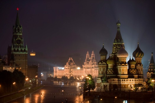 Red square by night